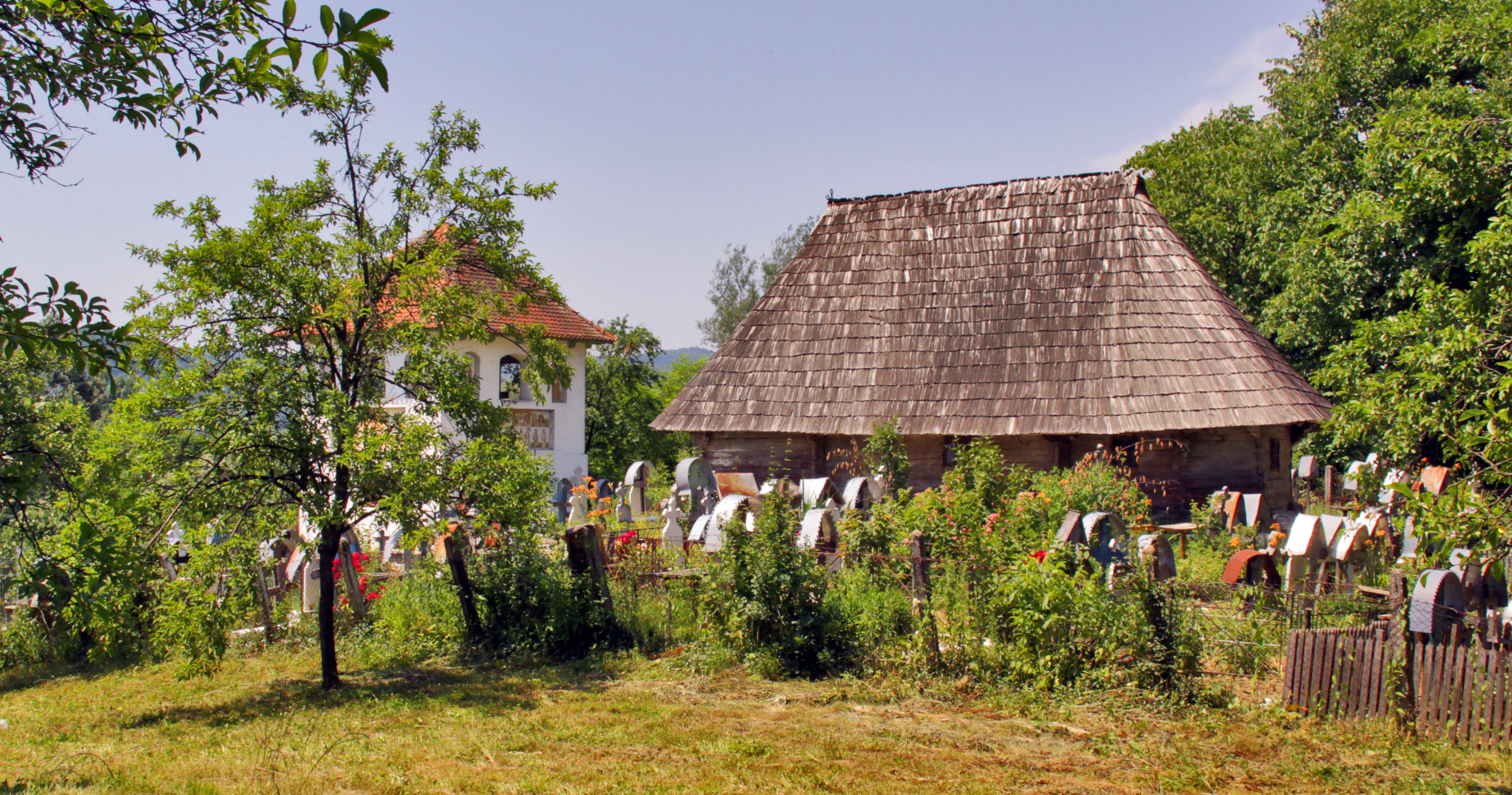 Pietrari, Vâlcea: The wooden church from Angheleşti-Cărpiniş, South.